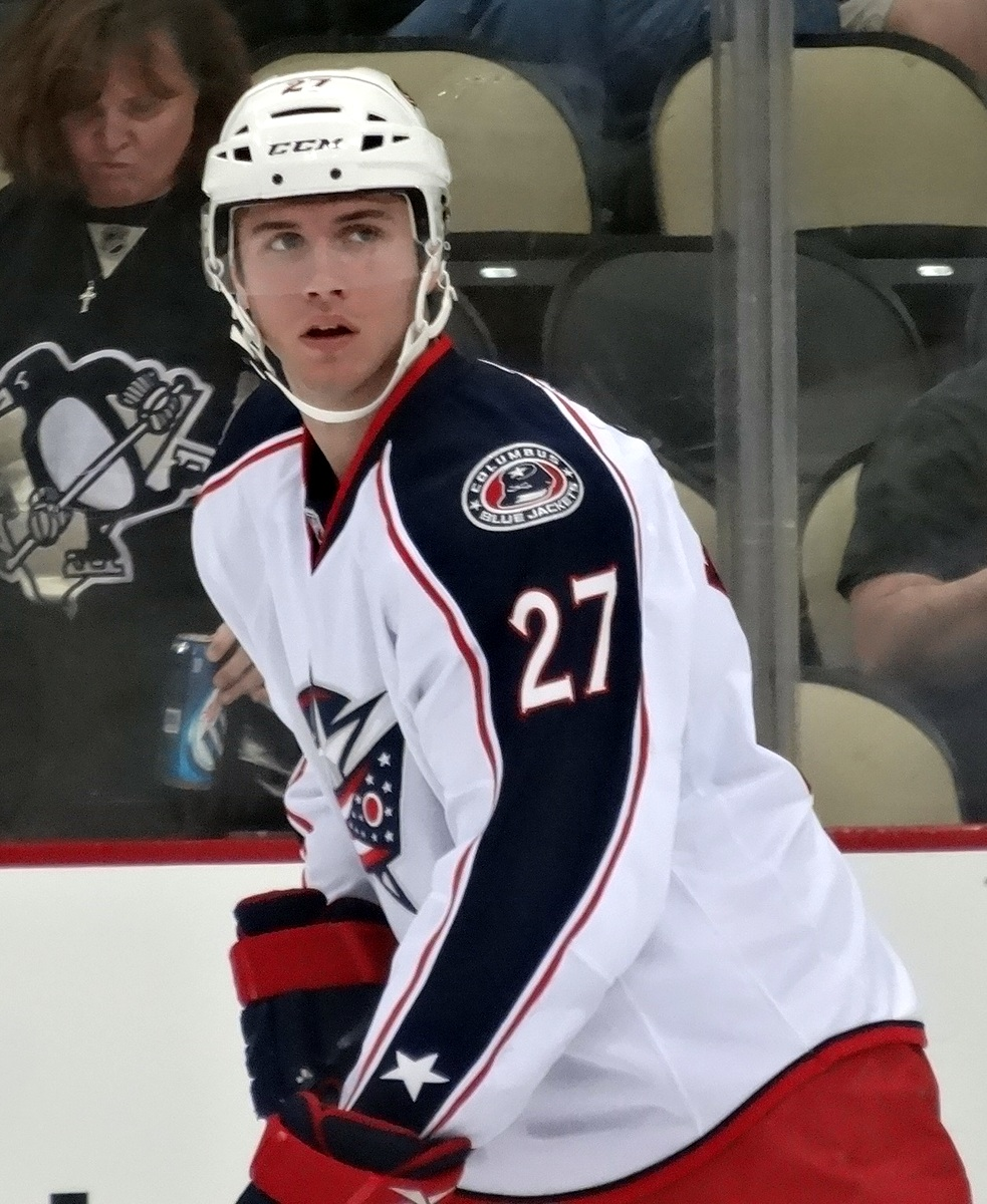 Columbus Blue Jackets defenseman Ryan Murray warms up before a game against the Pittsburgh Penguins, November 1, 2013, at Consol Energy Center in Pittsburgh, PA.